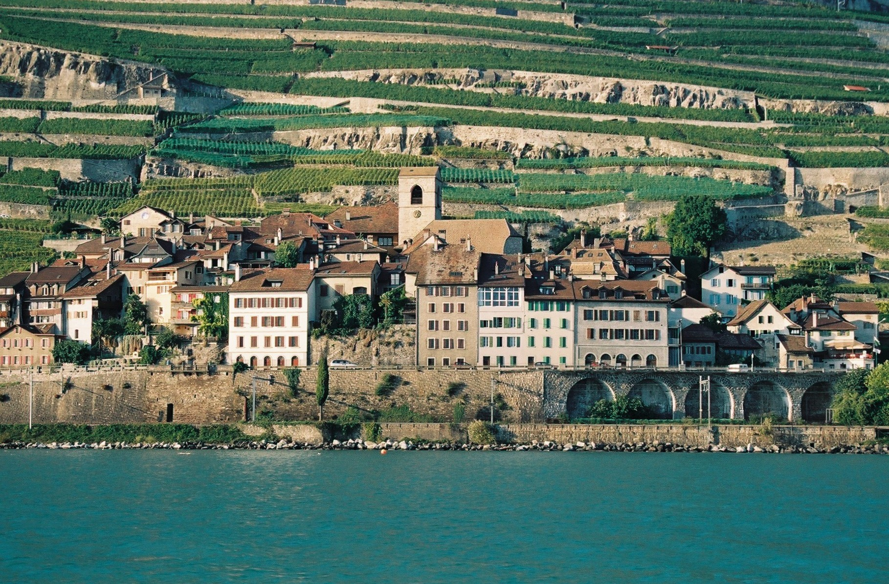 Saint-Saphorin upon lake Geneva